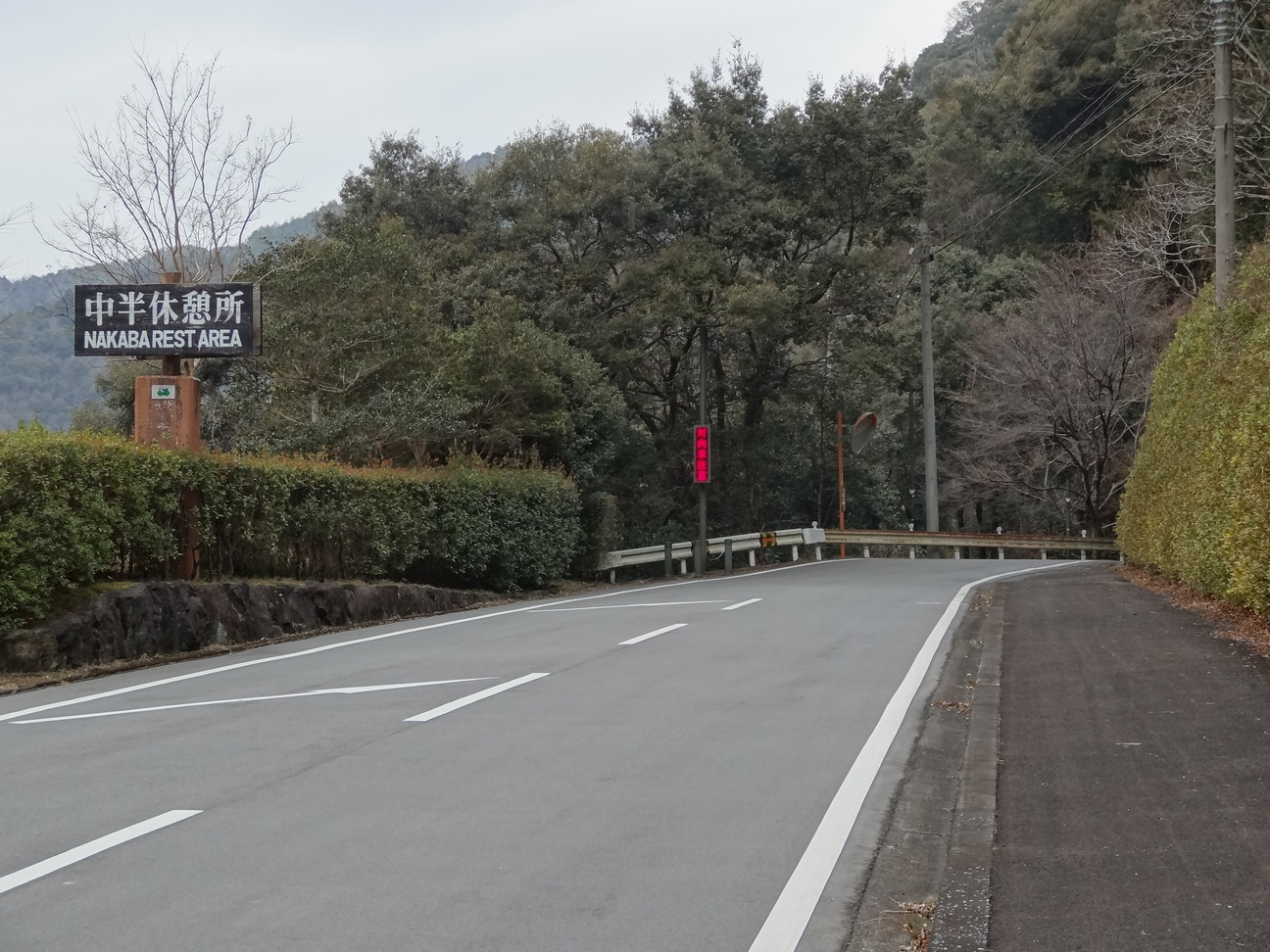 National Route 441 Nakaba Rest Area - Nishi-Tosa, Shimanto City, Kochi Prefecture, Japan.